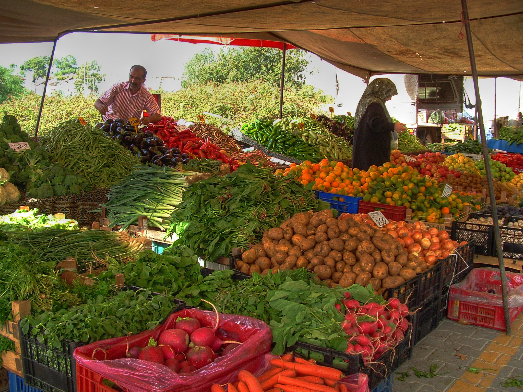 Fresh fruit and vegetables